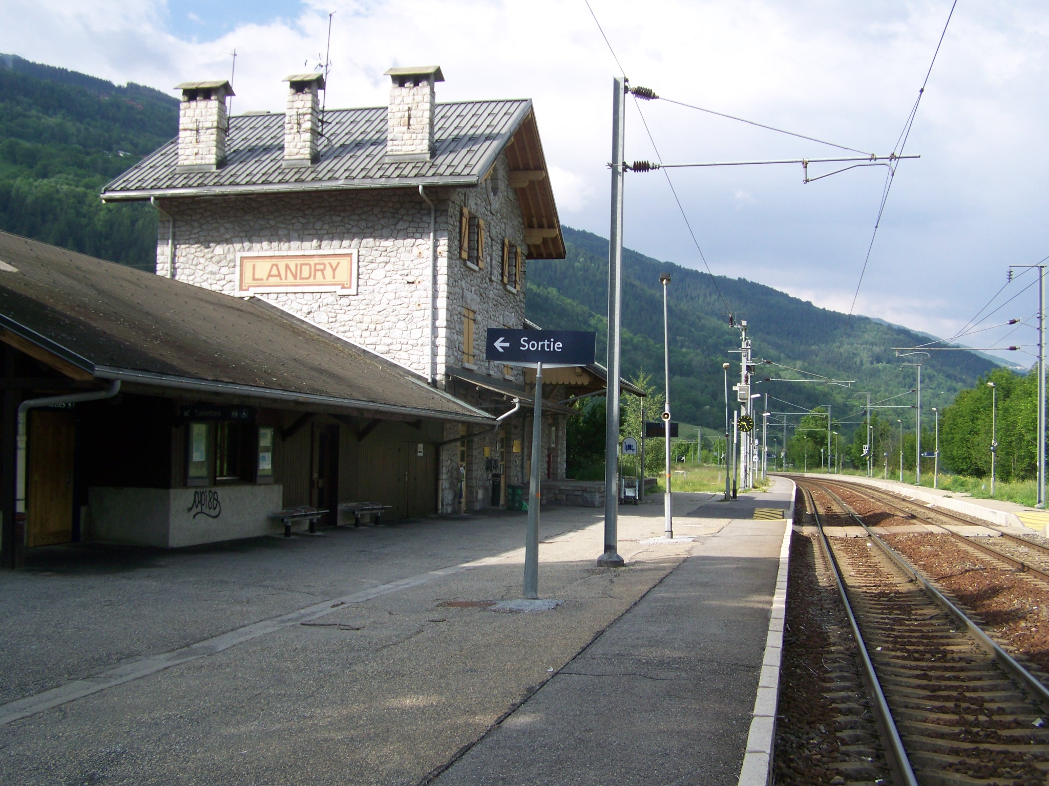 Tracks and platforms of commune of Landry railway station in Savoie, France.